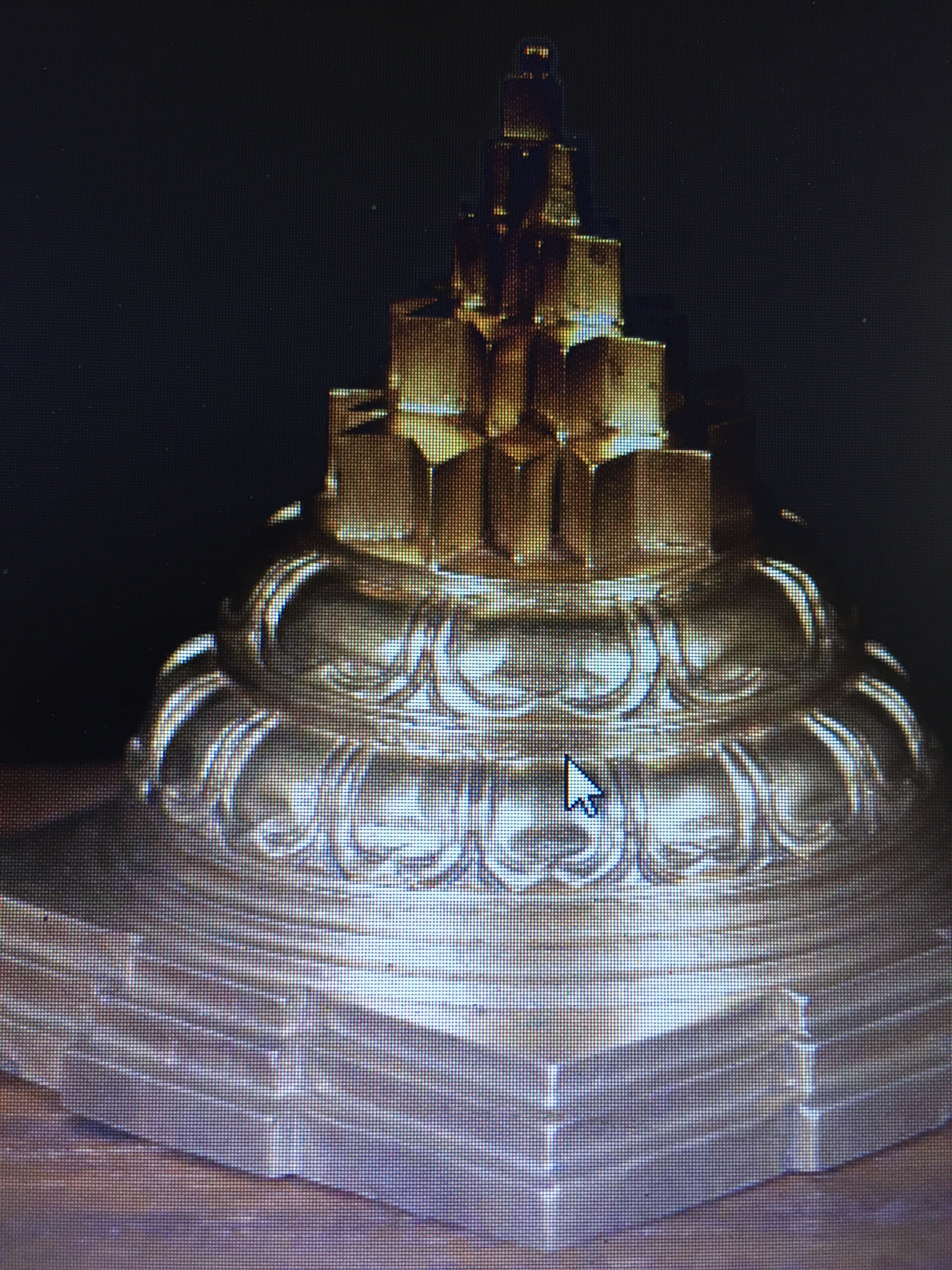 srichakra durga parameswari